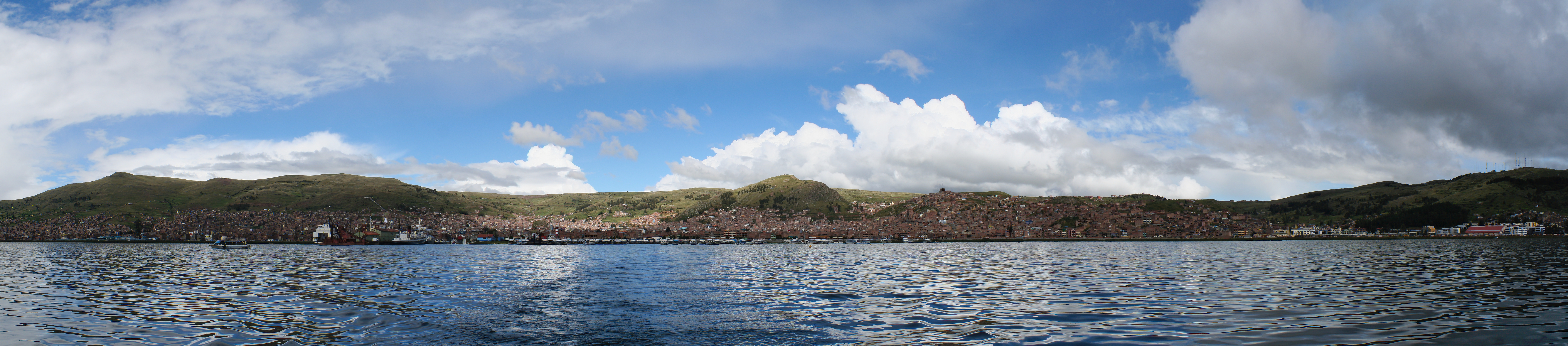 Puno from Titicaca Lake